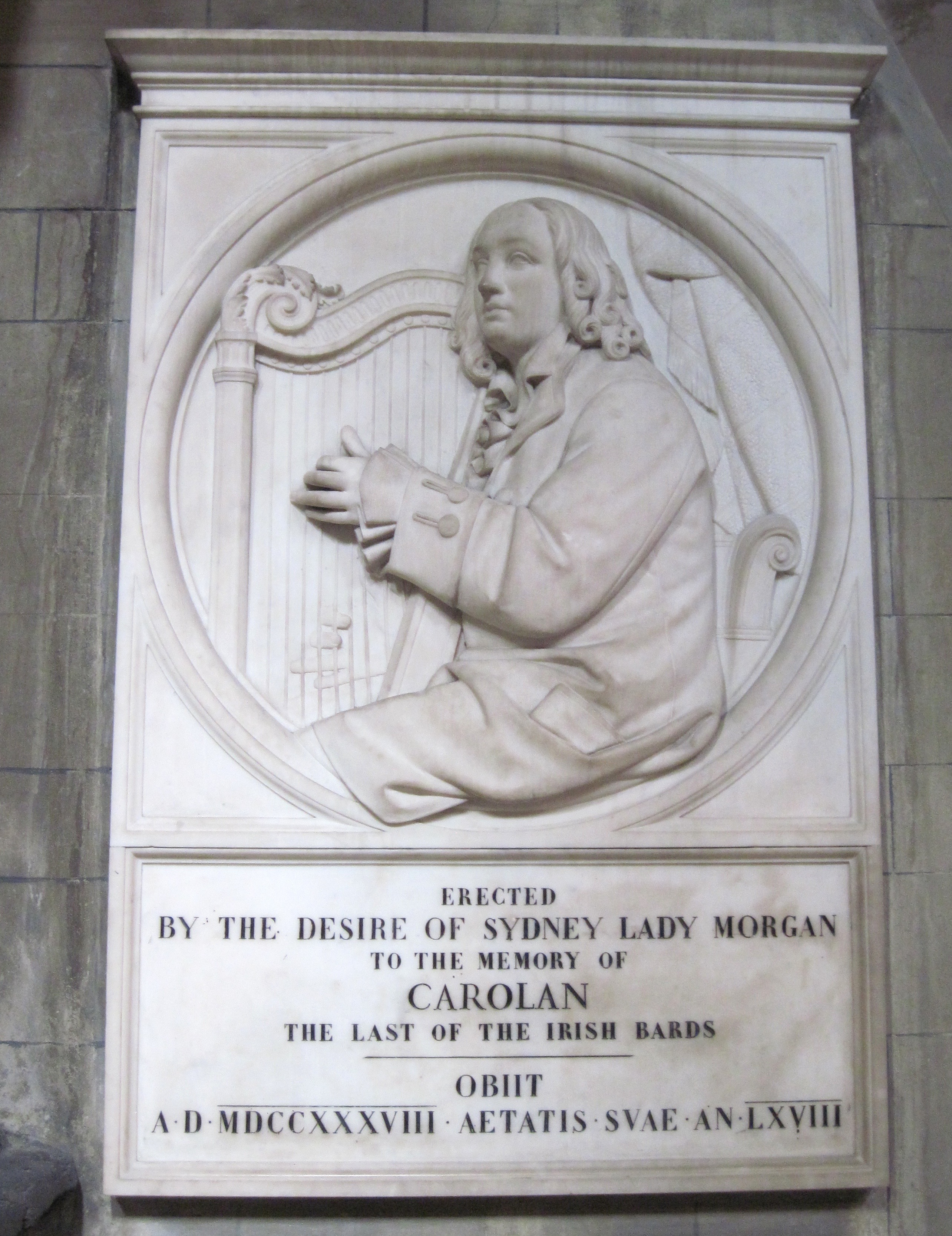 St Patricks Cathedral